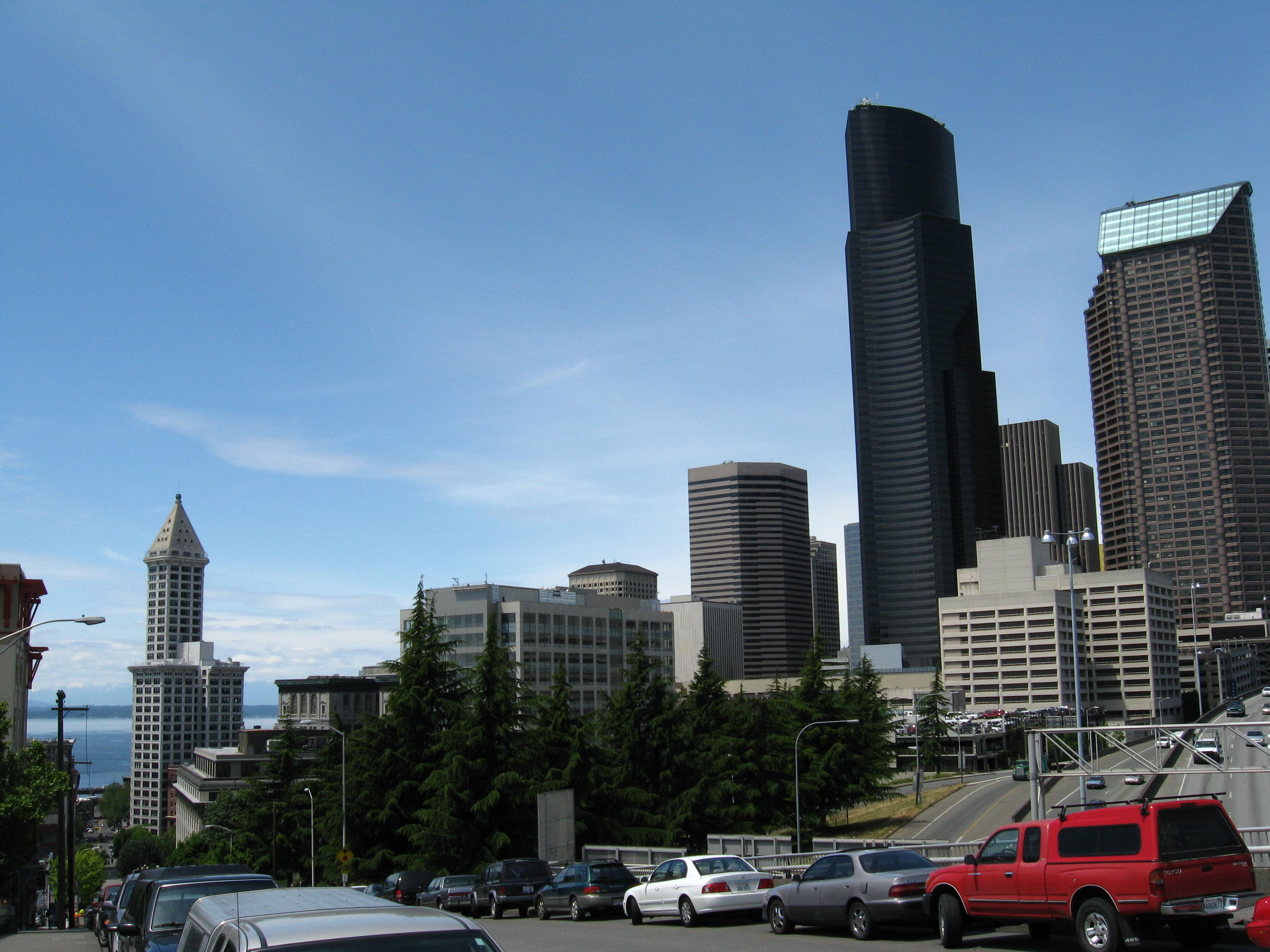 Looking west on Yesler Way, Seattle, Washington, USA. Downtown is to the right, Pioneer Square and Elliott Bay straight ahead; to the left (not seen) would be the International District.